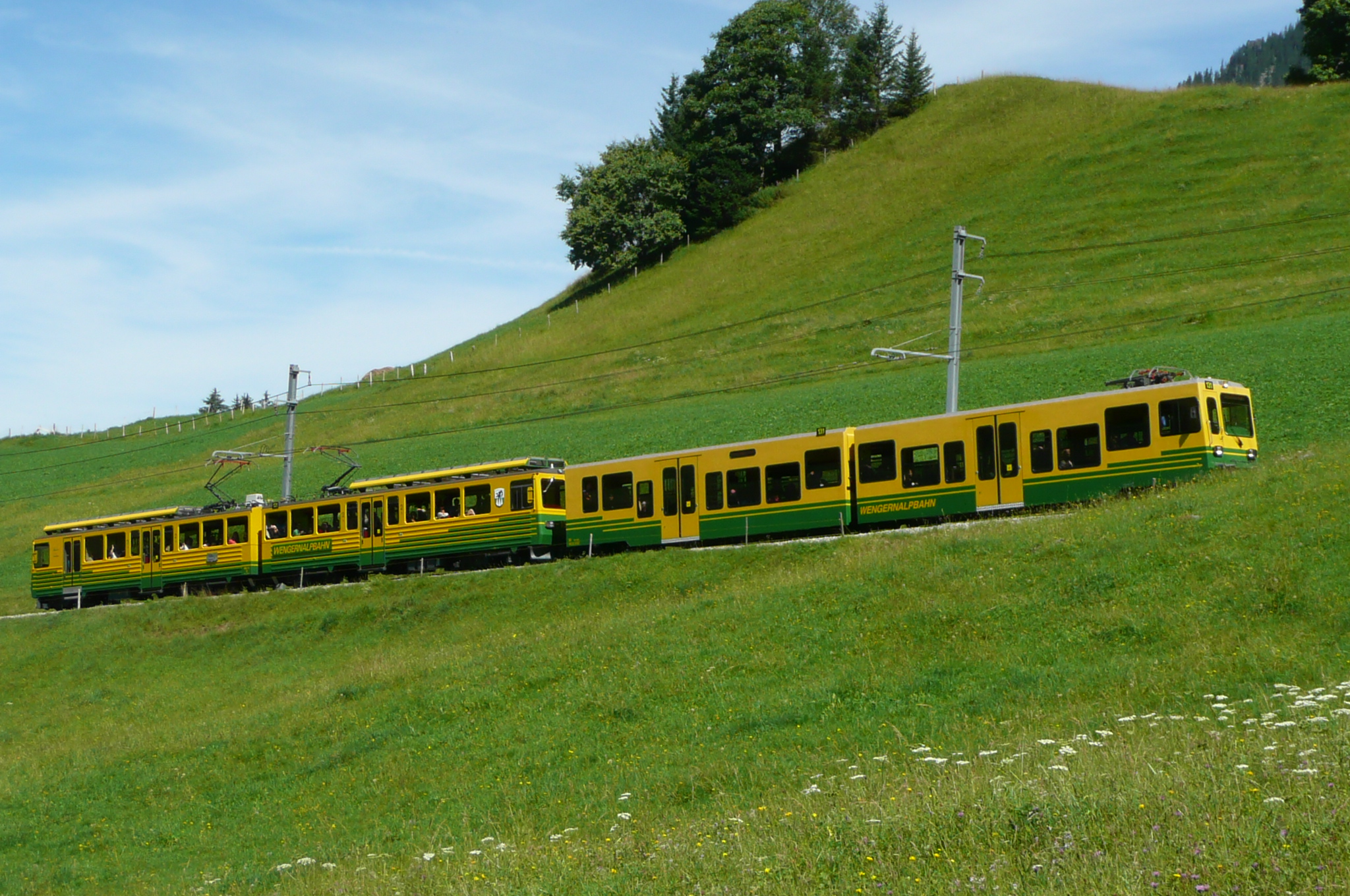 Wengernalp rack railway summer shuttle train composition since 2003 double motor coach BDhe 4/8 131 of 1988 and control cab coach series Bt6 251-253 of 2003. Line Lauterbrunnen-Kleine Scheidegg – 2009-08-05